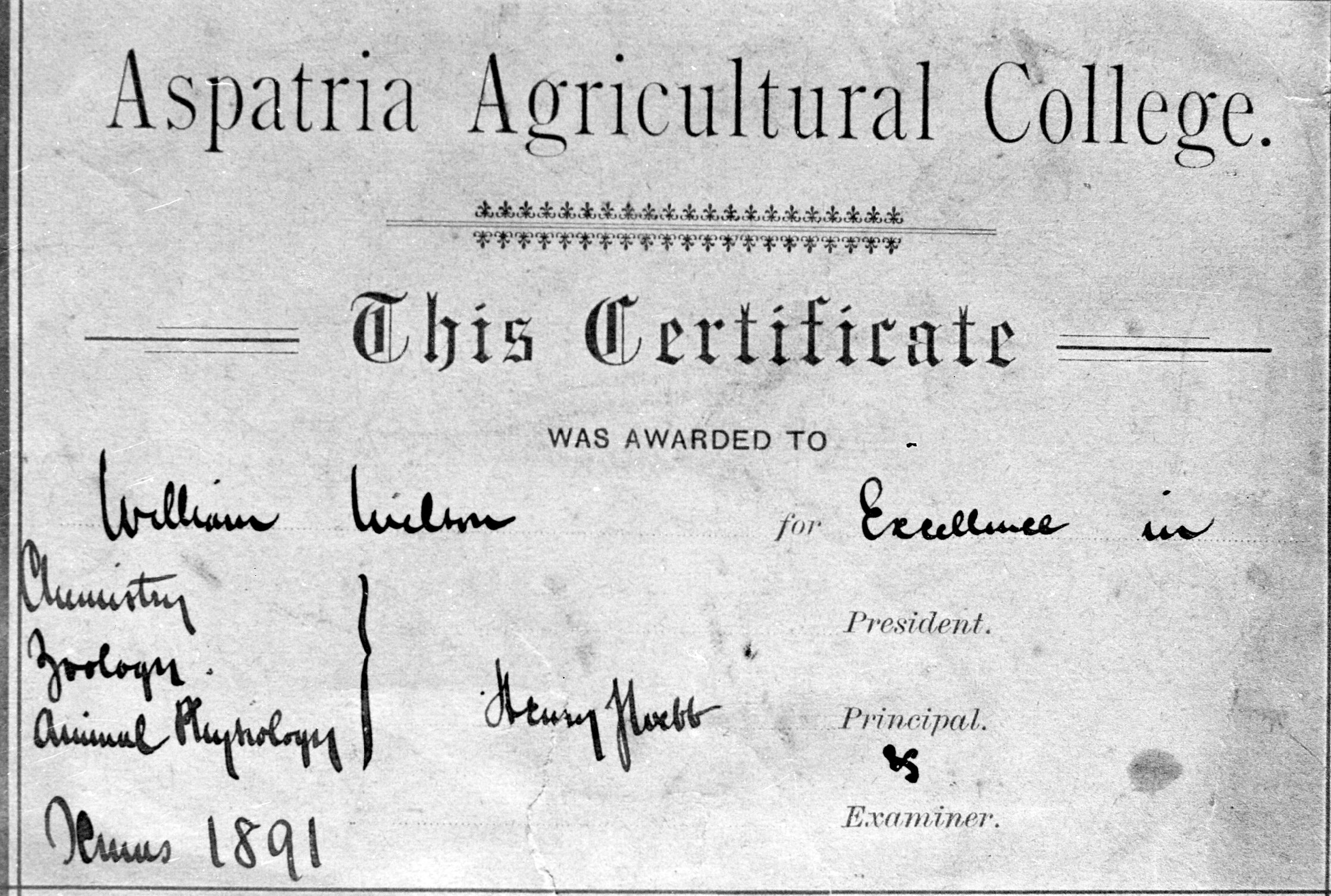 Photo of an award